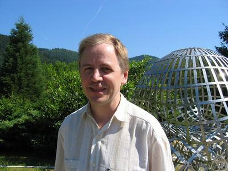 Anthony J. Scholl, Oberwolfach 2005